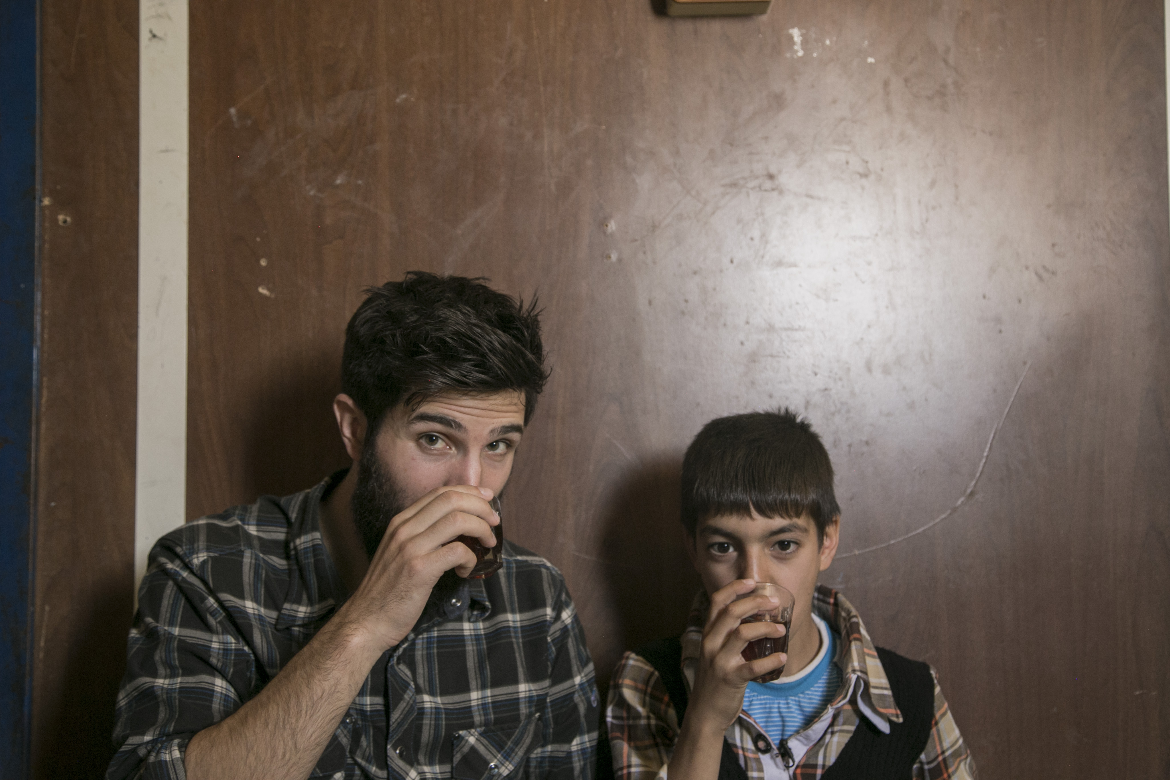 Zach and Raouf from Salam Neighbor Film - Syria refugee crisis camp